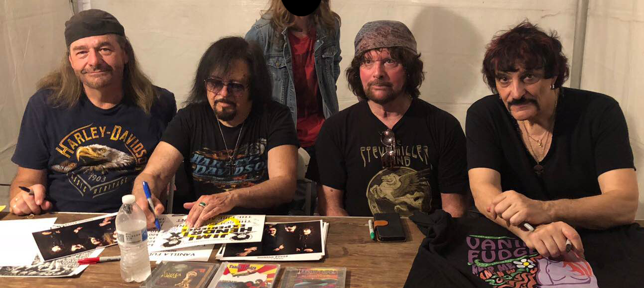 Vanilla Fudge at a fan meet-up at Abbey Road on the River, 2018